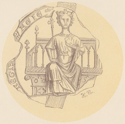 Seal (front) of King Magnus VI Haakonsson of Norway, from document dated 18. jul. 1278, Tønsberg. Text: "[Sigillvm Magni Haconis (?) filiii (?) dei gracia] REGIS [Nor]WAGIE".